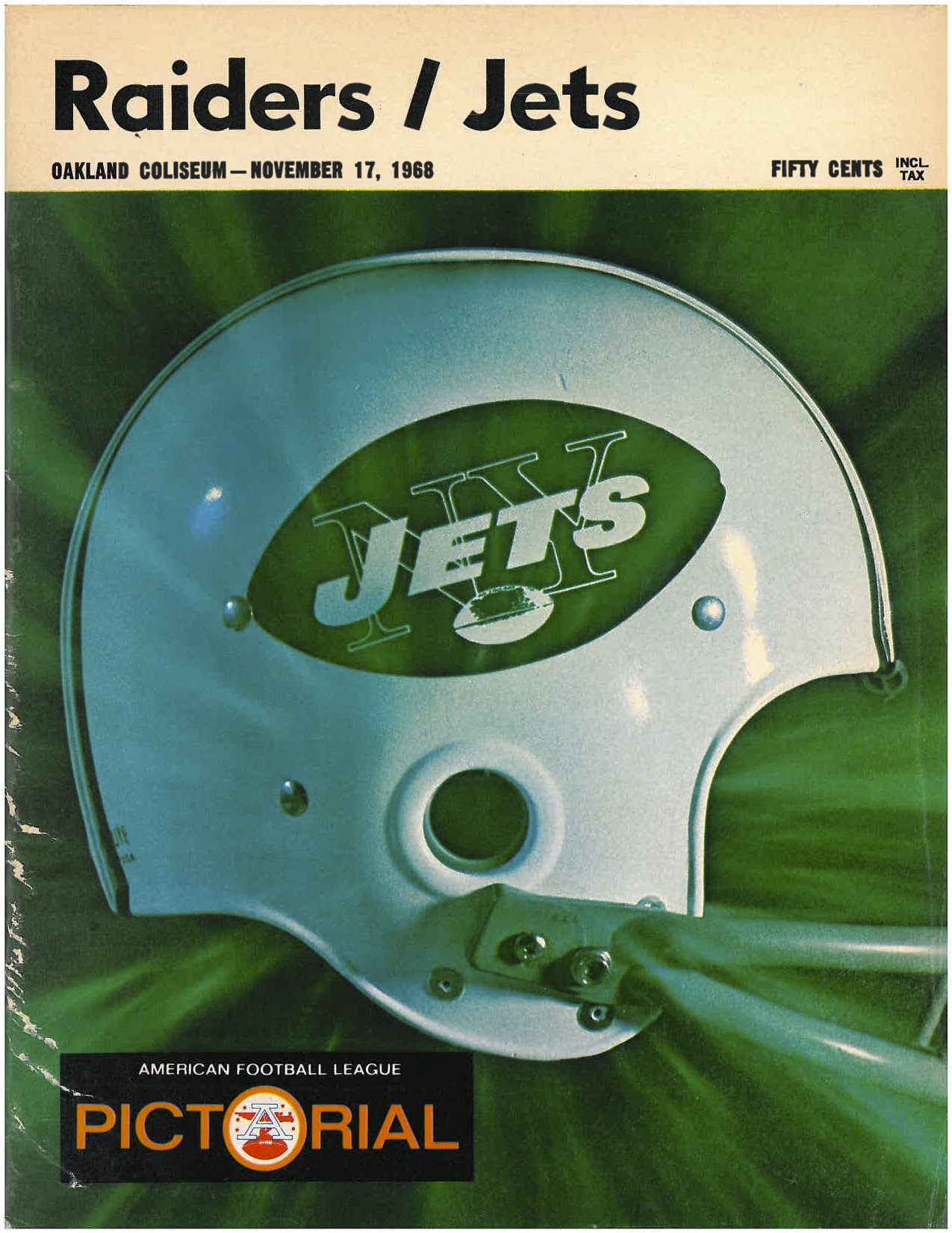 Program cover from the 11/17/68 game between the Jets and Raiders. The game came to be known as the "Heidi Game" after NBC cut off the game at 7 pm Eastern time to go to the movie Heidi. Published without copyright notice.